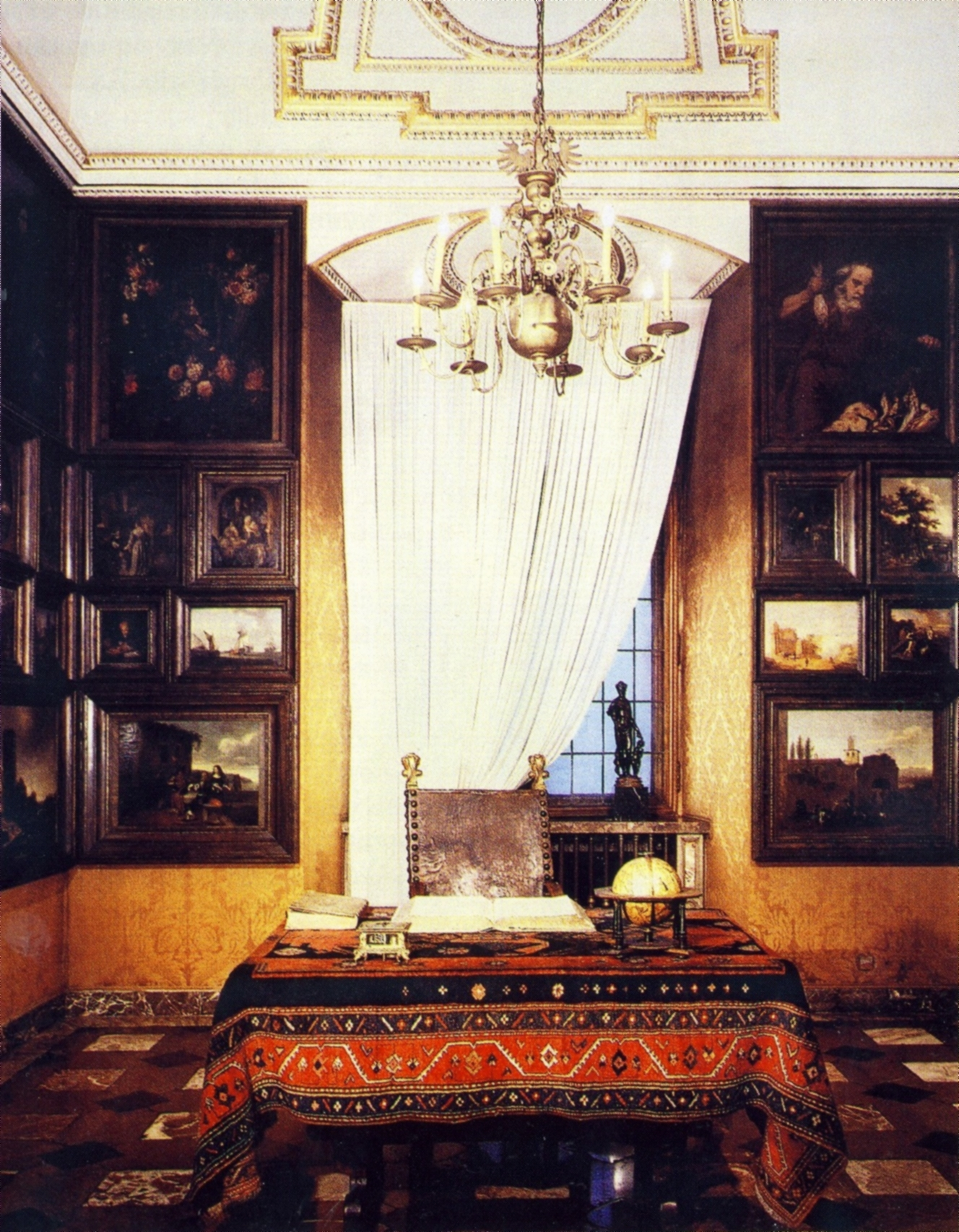 Dutch Study (Study of Sigismund III Vasa) at Wawel Castle.